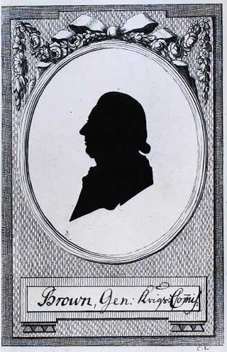 John Brown (1723-1808), Danish merchant, shipowner, and estate owner